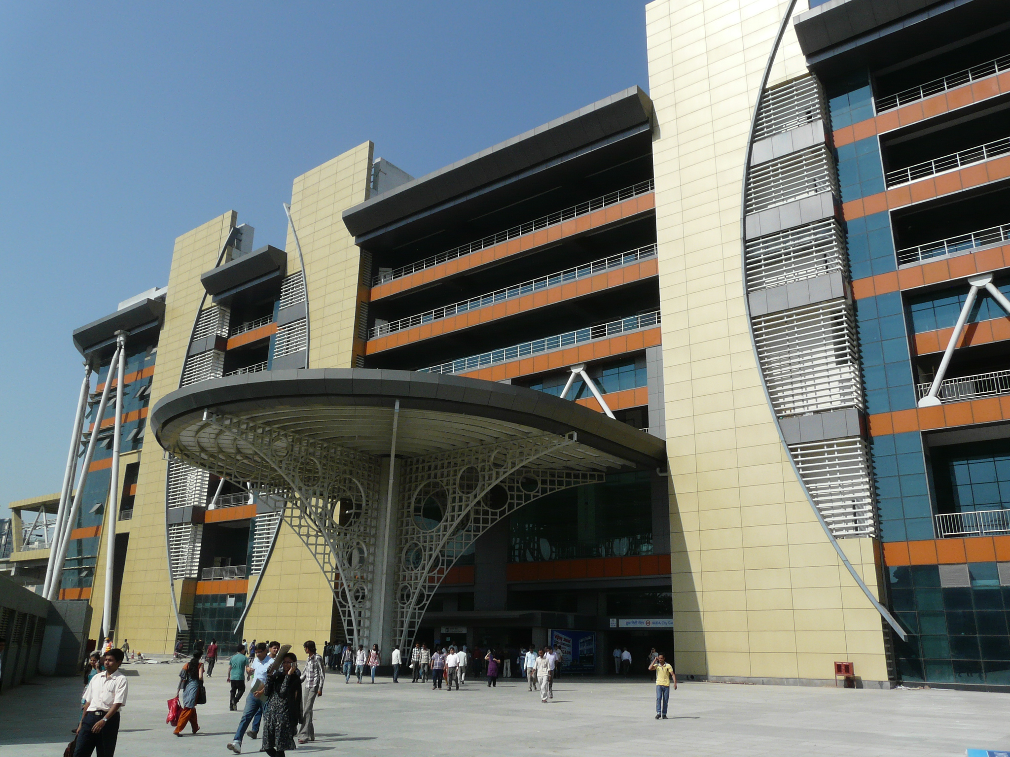 HUDA City Center station, the terminal station on the Yellow Line of Delhi Metro in Gurgaon, Haryana.